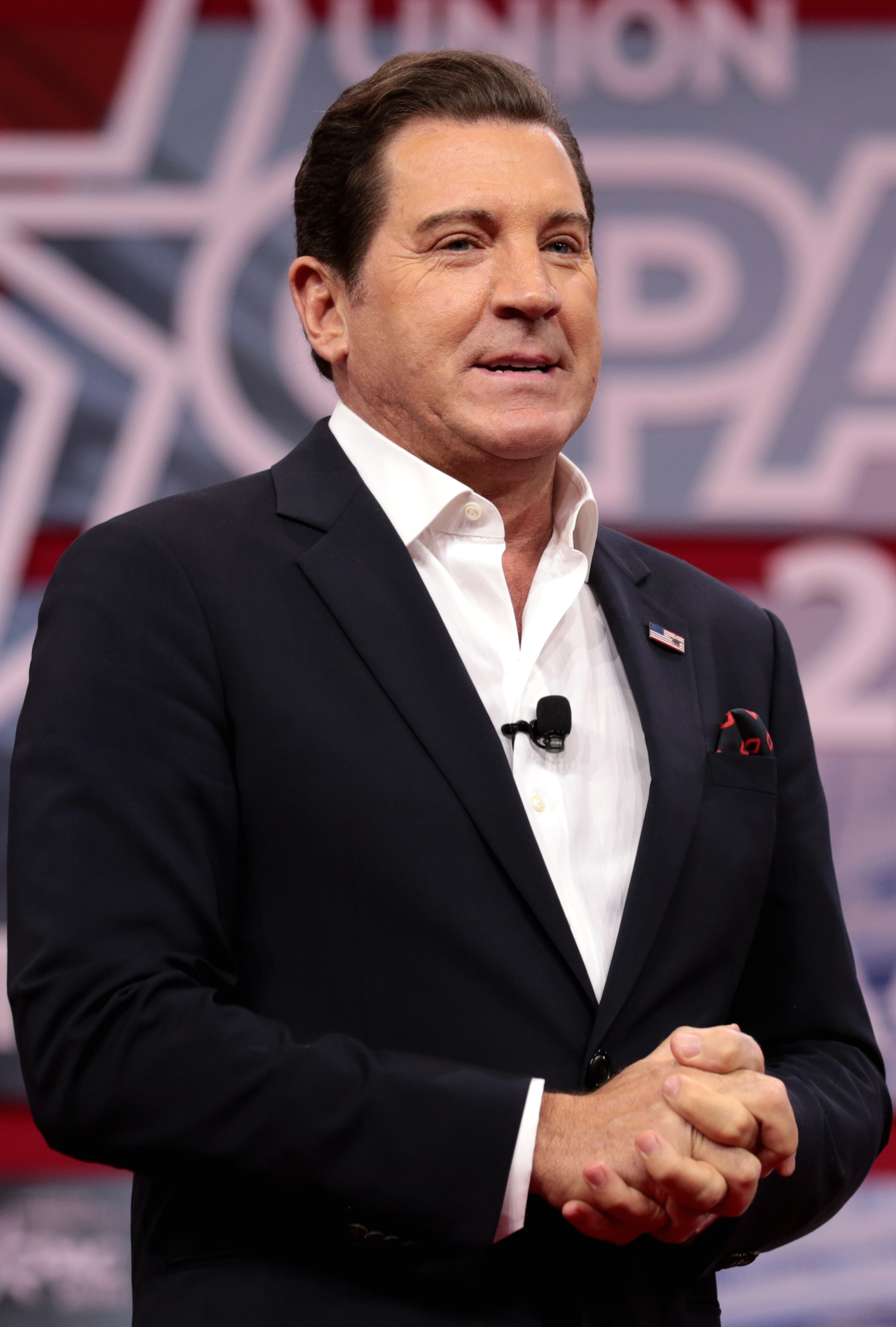 Eric Bolling speaking at the 2018 CPAC in National Harbor, Maryland.